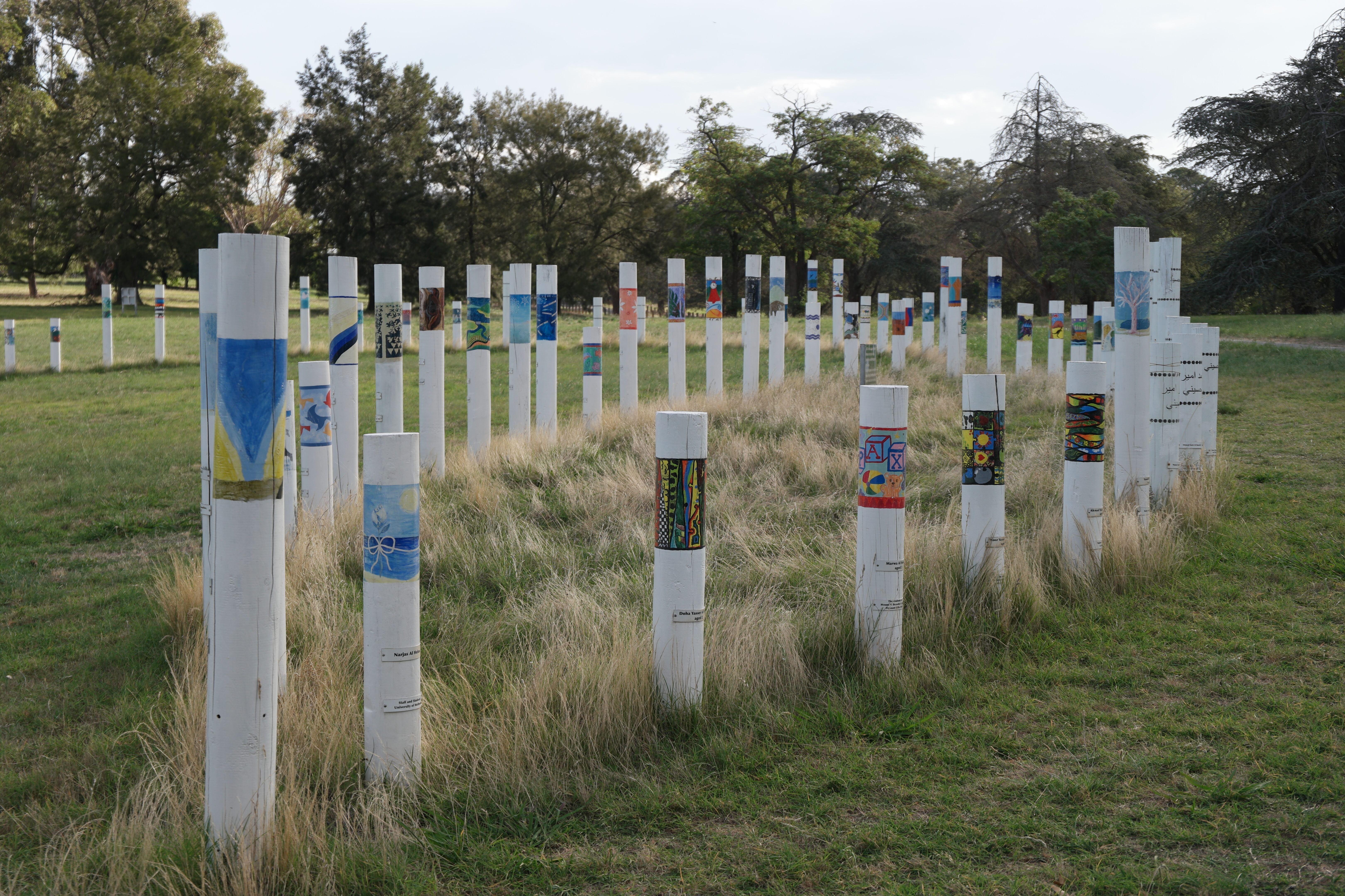 SIEV X Memorial at Kurrajong Point, Yarralumla Peninsula, Weston Park, Canberra. Foreground poles mark out the outline of the SIEV X vessel.